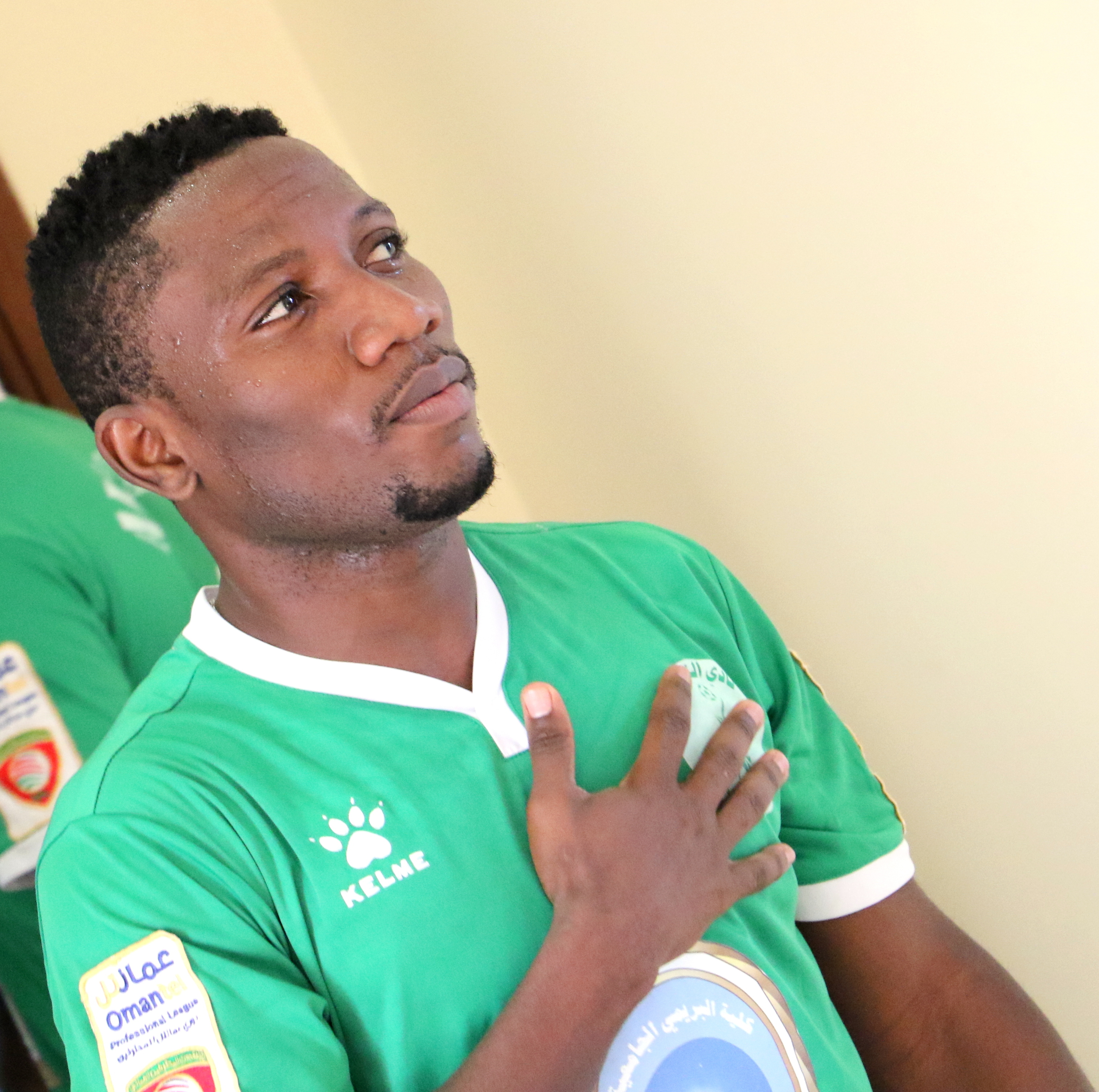 Daniel Odafin with Al Nahda Club before a match against Dhofar Club. Al Saada Stadium 28 May 2015 Photographer email id